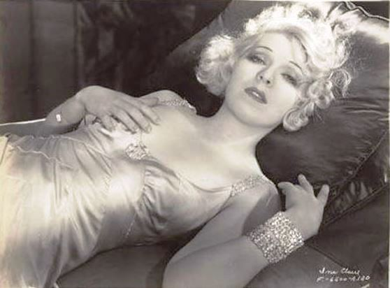 Publicity still of Ina Claire from The Greeks Had a Word for Them (also known as Three Broadway Girls).